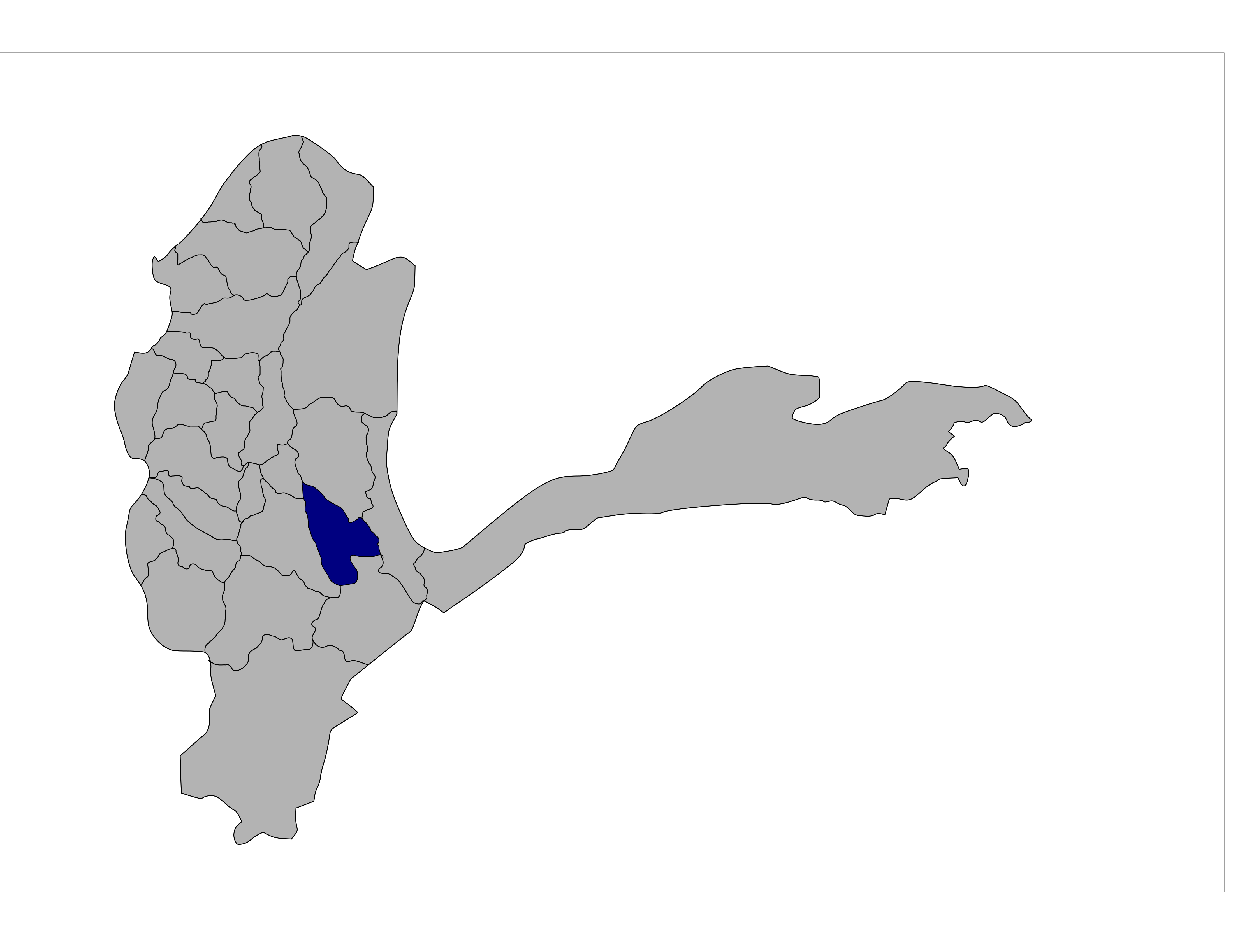 Shows the boundaries of Warduj District, Badakhshan Province, Afghanistan.